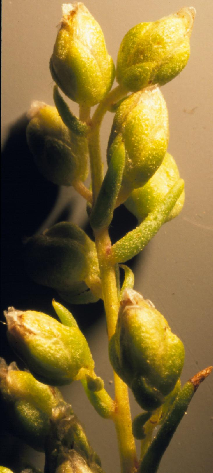 The involucral bracts are typically glabrous.